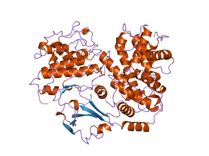 Cartoon representation of the molecular structure of protein registered with 1jsu code.